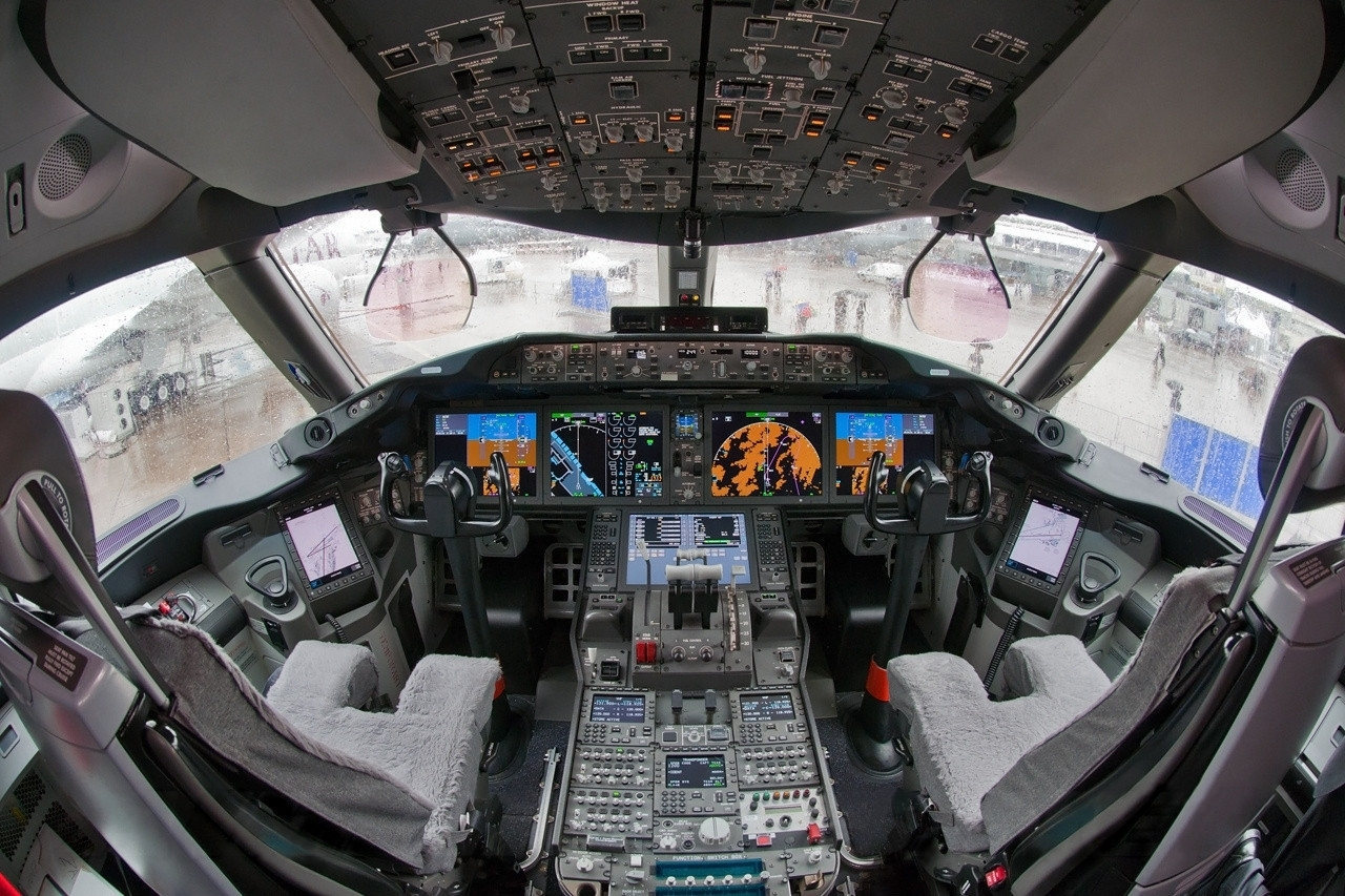 Flight deck of the Boeing 787-8 N787BA (cn 40690/1)